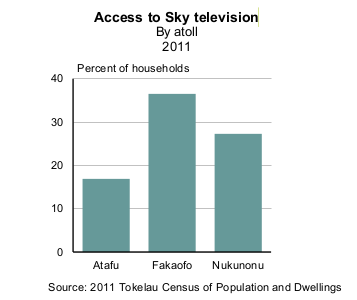 Proportion of Tokelauan households with a subscription to Sky television